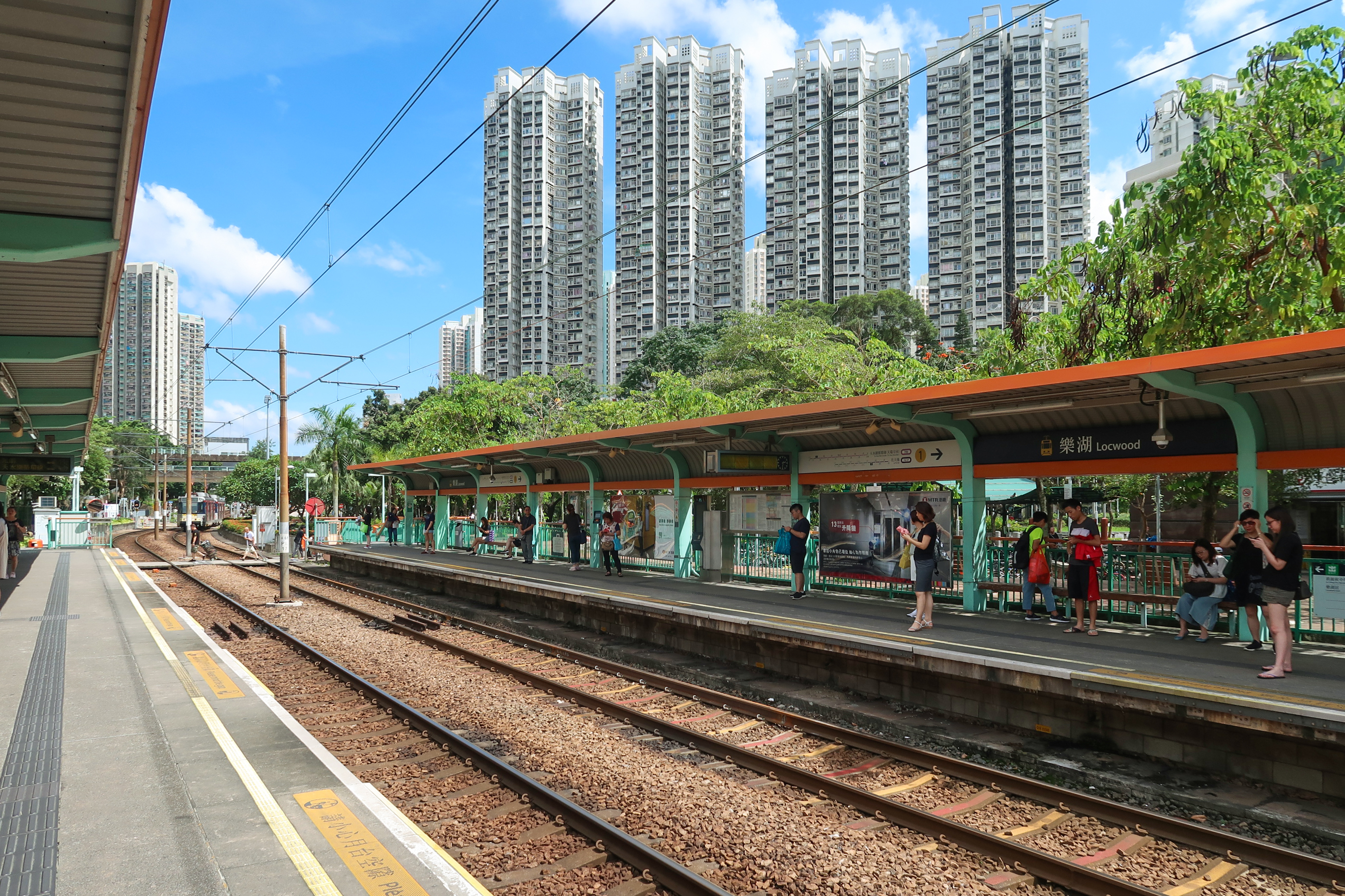 LRT Locwood Stop